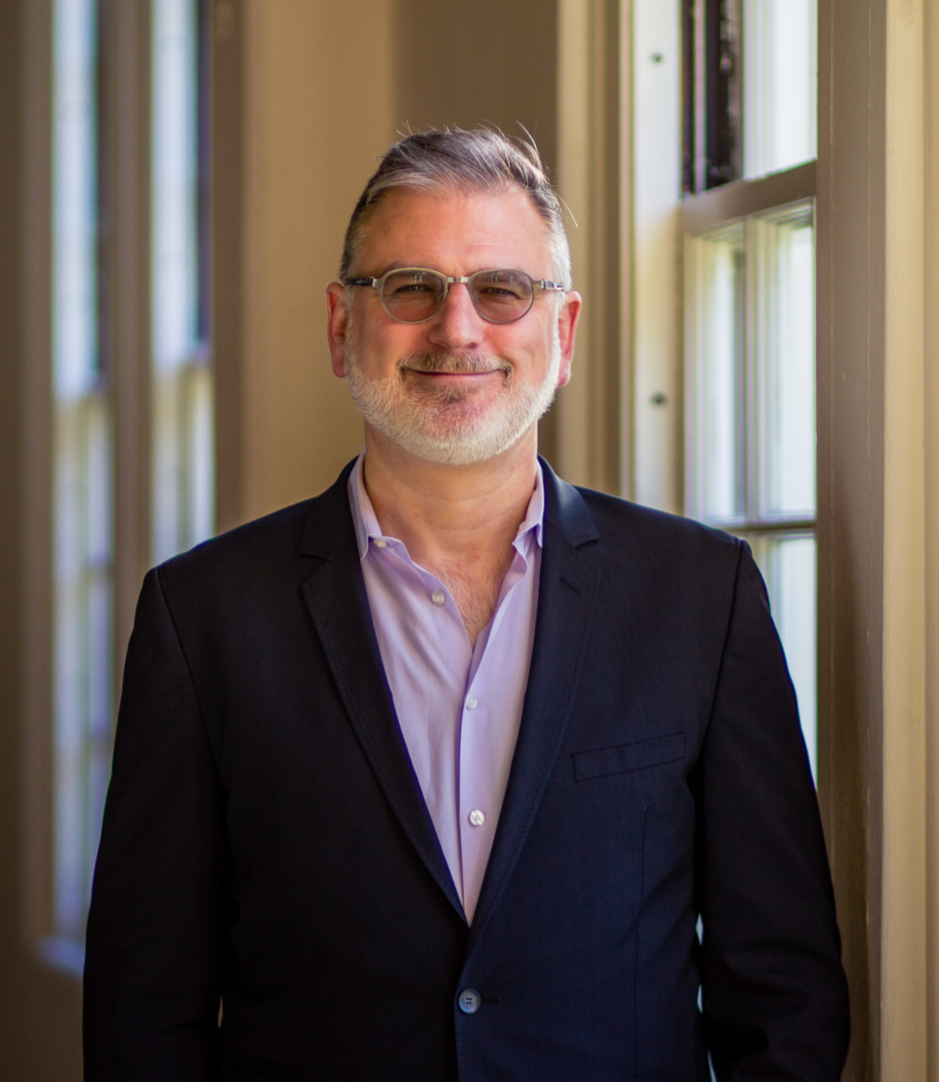 Cowan present day (2018)